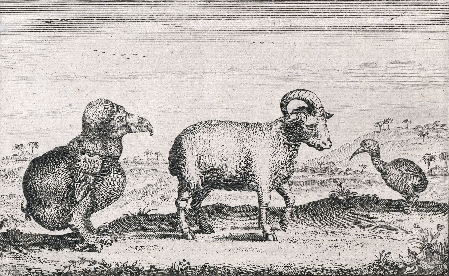 Dodo, one-horned sheep, and Mauritius Red Hen (Aphanapteryx bonasia), depiction by Pieter van den Broecke from the year 1632 - 1634 and/or 1646.